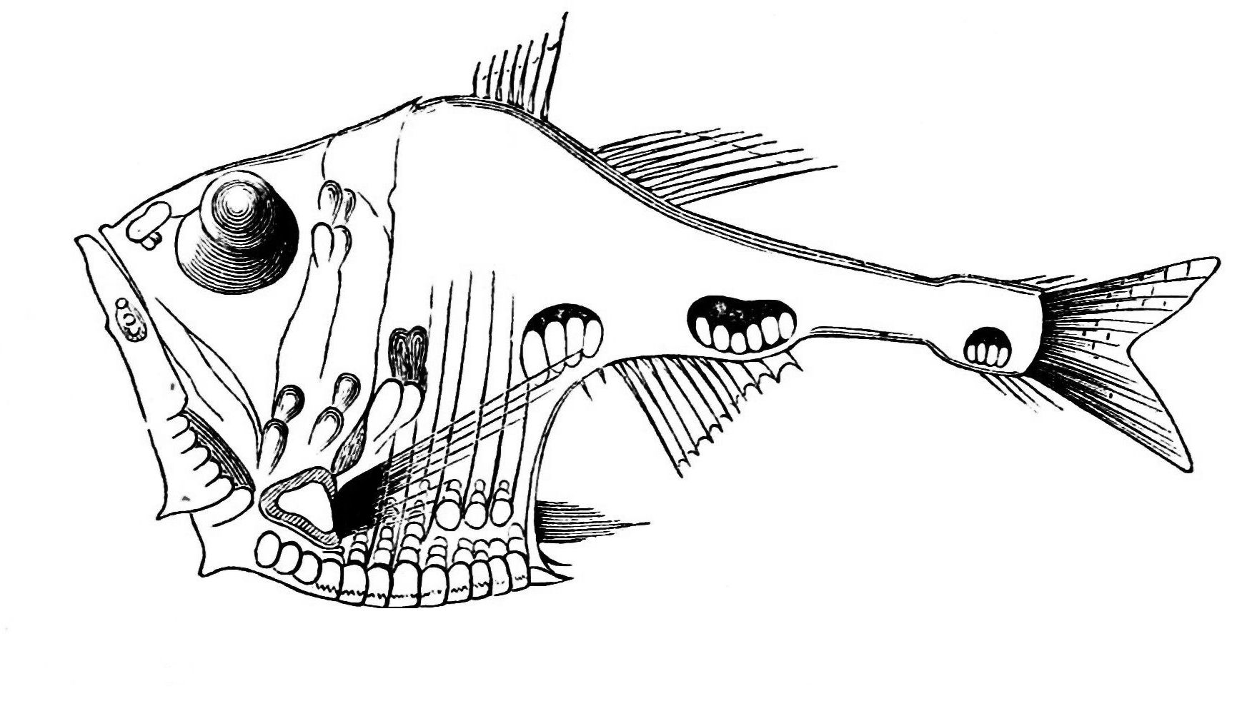 Argyropelecus hemigymnus